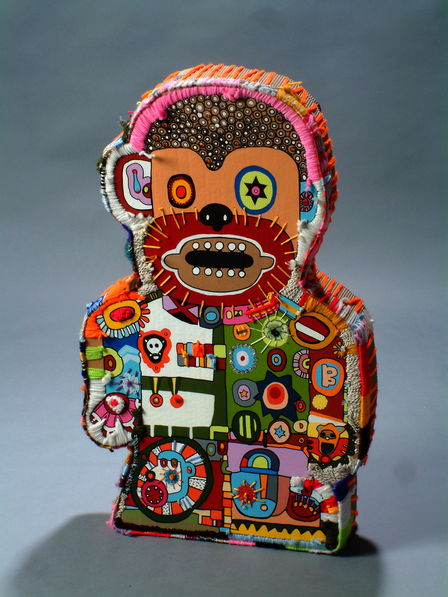 Brave Bear, 2010, mixed media, by Keren Shpilsher